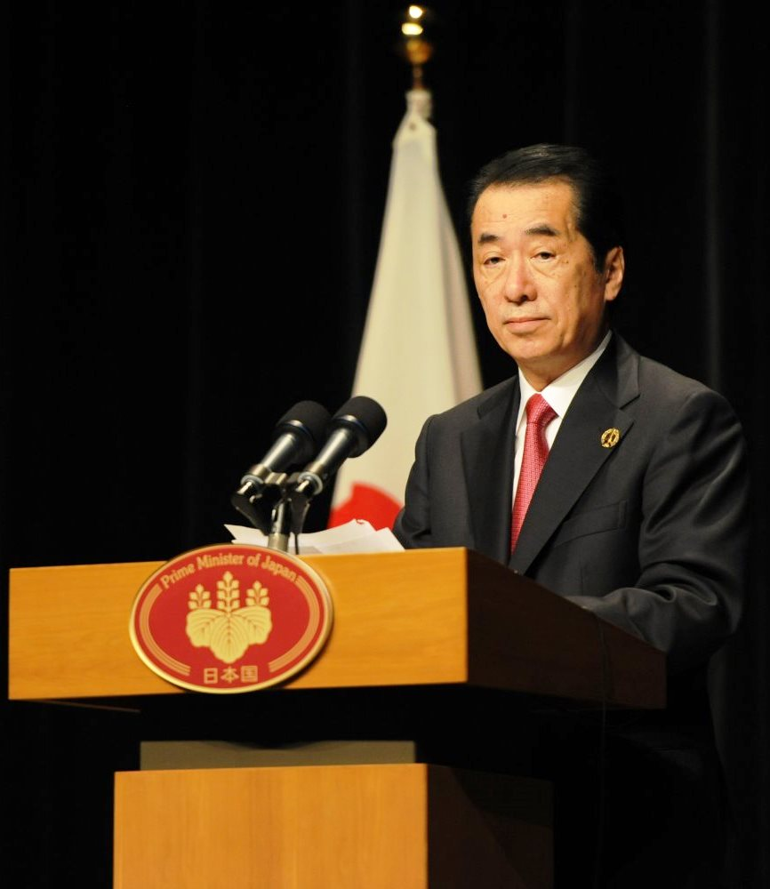 After the 2011 Tōhoku earthquake and tsunami